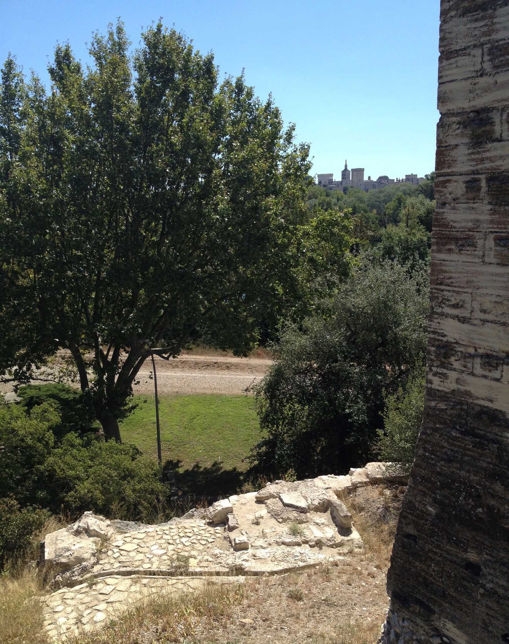 Remains of the gatehouse leading to the Pont Saint-Bénézet (a medieval bridge), below the Tour Phillipe Le Bel (a medieval tower) in Villeneuve-lès-Avignon, France.